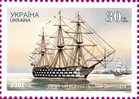 Stamps of Ukraine, 2001